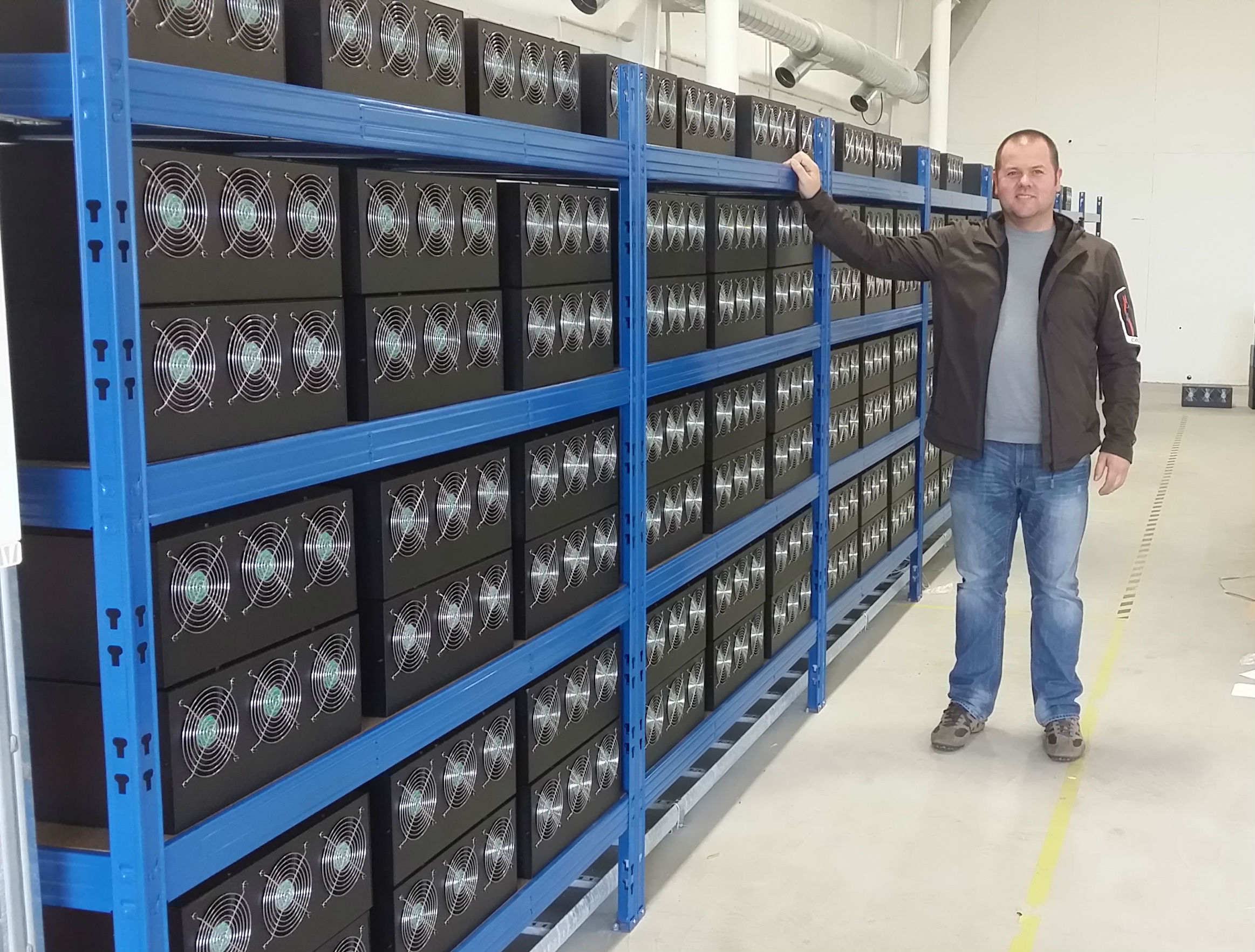 A mining farm of Genesis Mining located in Iceland. The picture shows mainly Zeus scrypt miners.